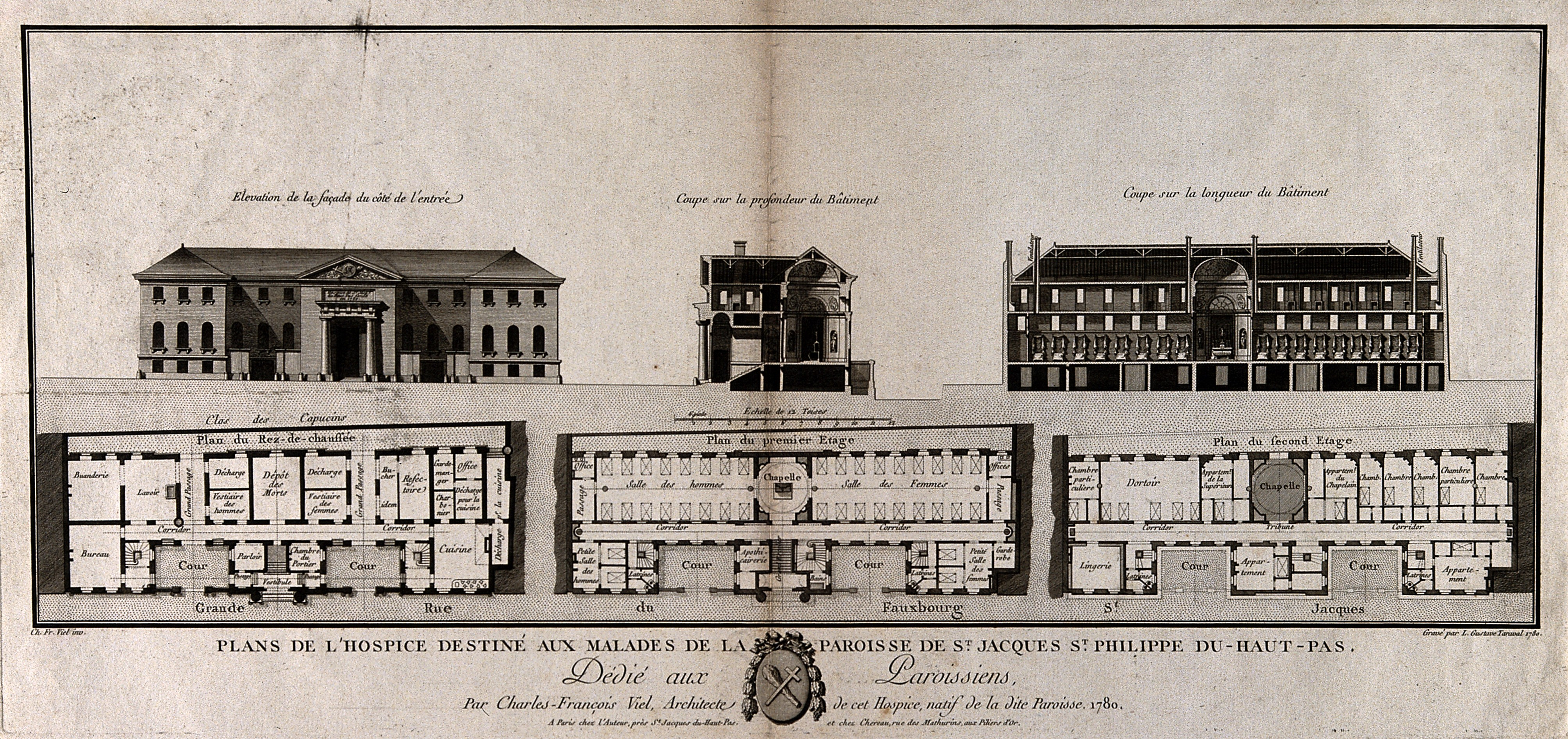 St. Jacques St. Philippe du-Haut-Pas Hospital, Paris: plans and sections. Etching by L.G. Taraval after C.F. Viel, 1780. Iconographic Collections Keywords: Charles-Francois Viel; Louis Gustave Taraval